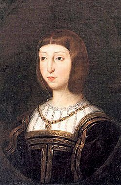 Isabel the Catholic. Anonymous work, 1600s. Inspired by a previous work.